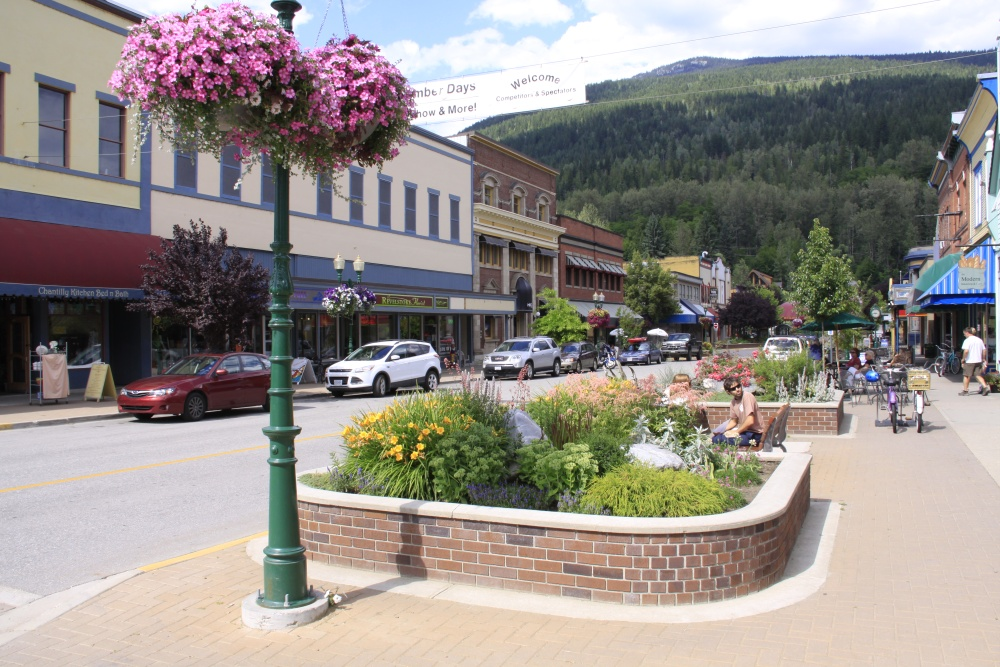 MacKenzie Avenue, Revelstoke, British Columbia, Canada - 2013.